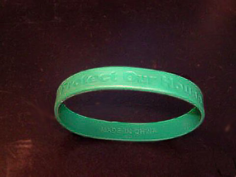 Countrywide Financial Corporation's Loyalty Bracelet bearing the slogan "Protect Our House." See the Wall Street Journal's articles "Countrywide Rearranges the Deck Chairs" and "Countrywide Tells Workers, 'Protect Our House'." CFC employees are issued the wristbands upon signing a loyalty oath, whereupon they are expected to wear it all of the time (at work and outside work as it is not removable). According to a senior CFC officer, the consequence of not getting such a wristband is "I will lose my job."